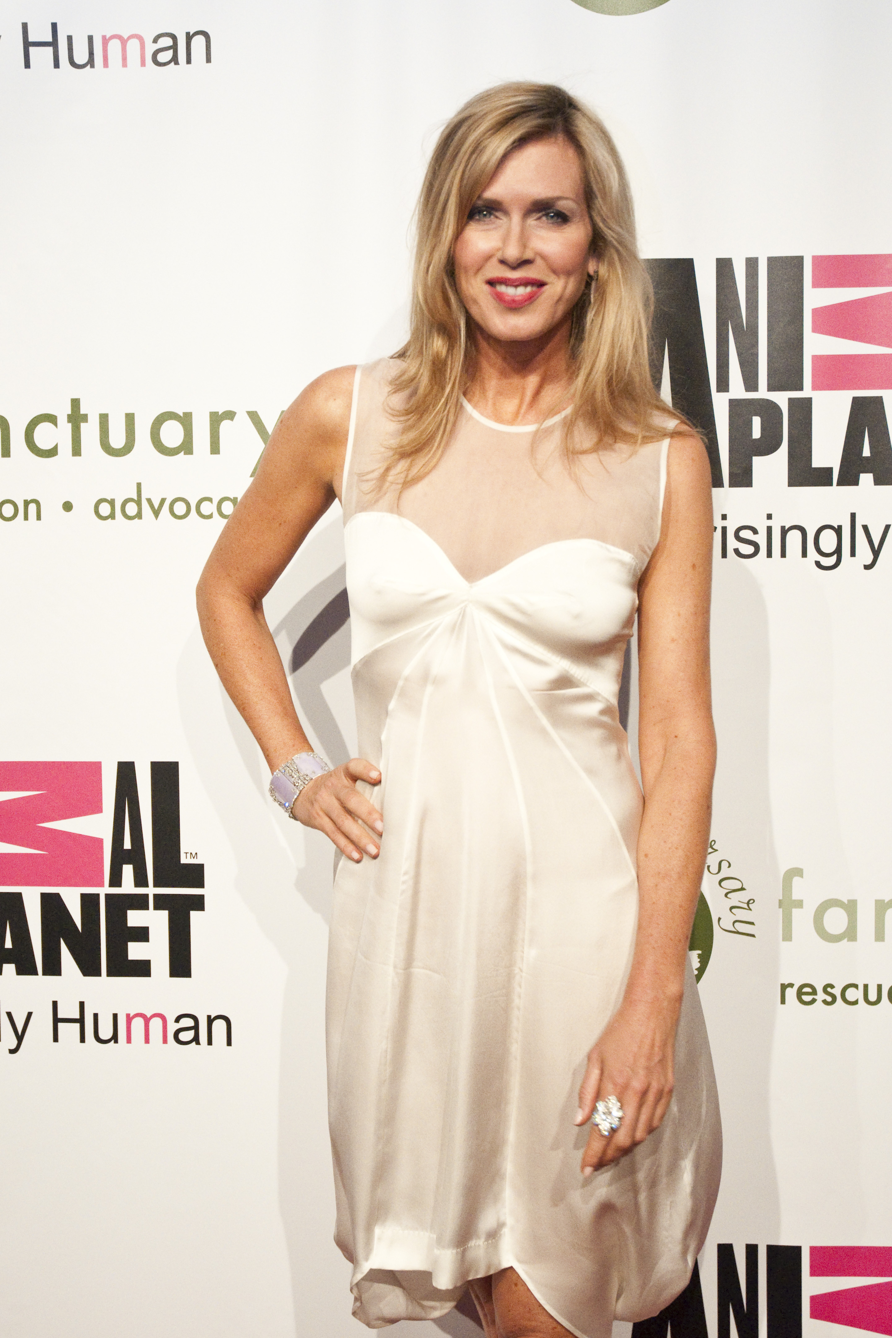 Kathy Freston at the Farm Sanctuary 25th Anniversary Gala in New York City.